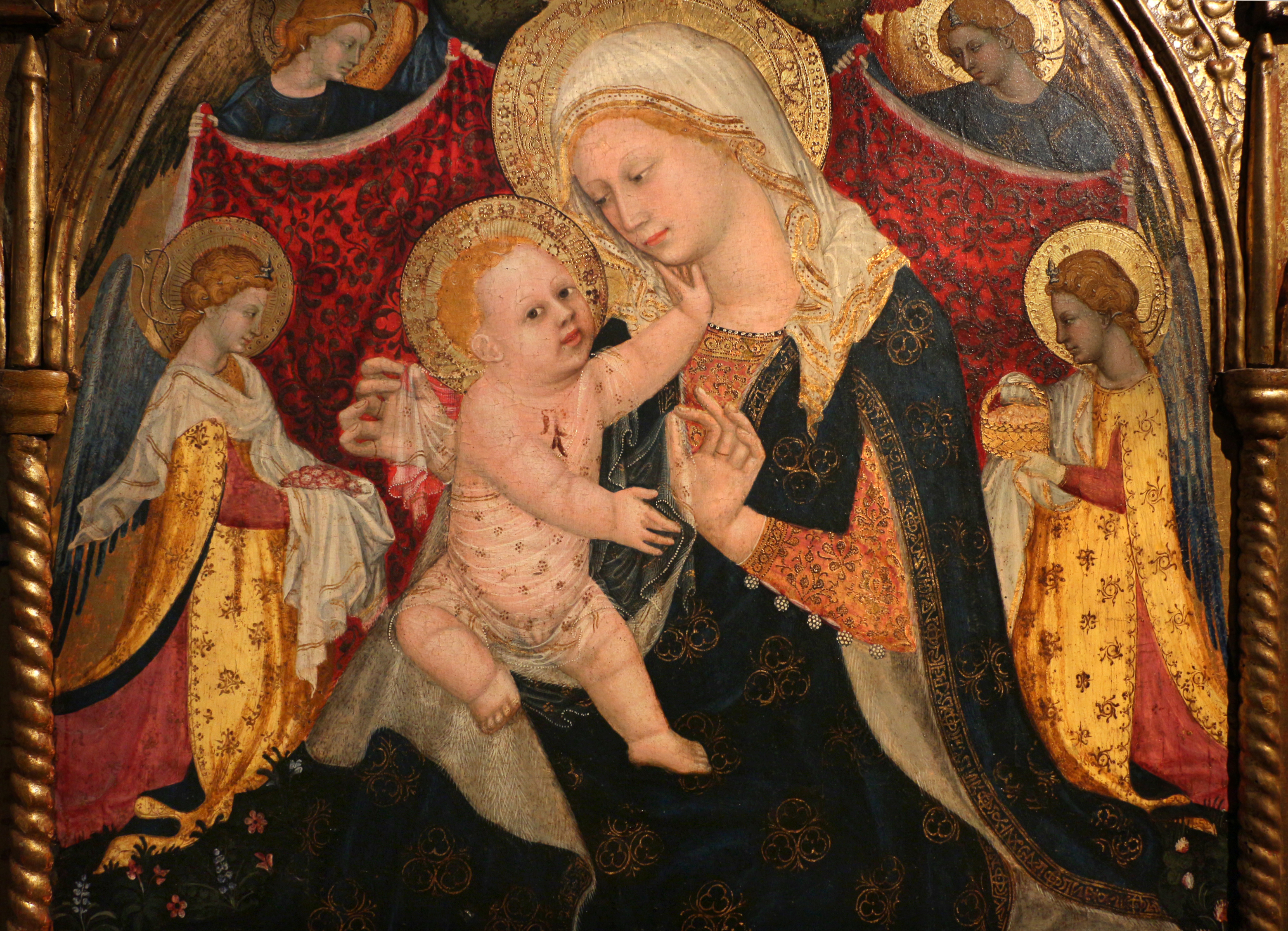 Pinacoteca Comunale (Recanati)